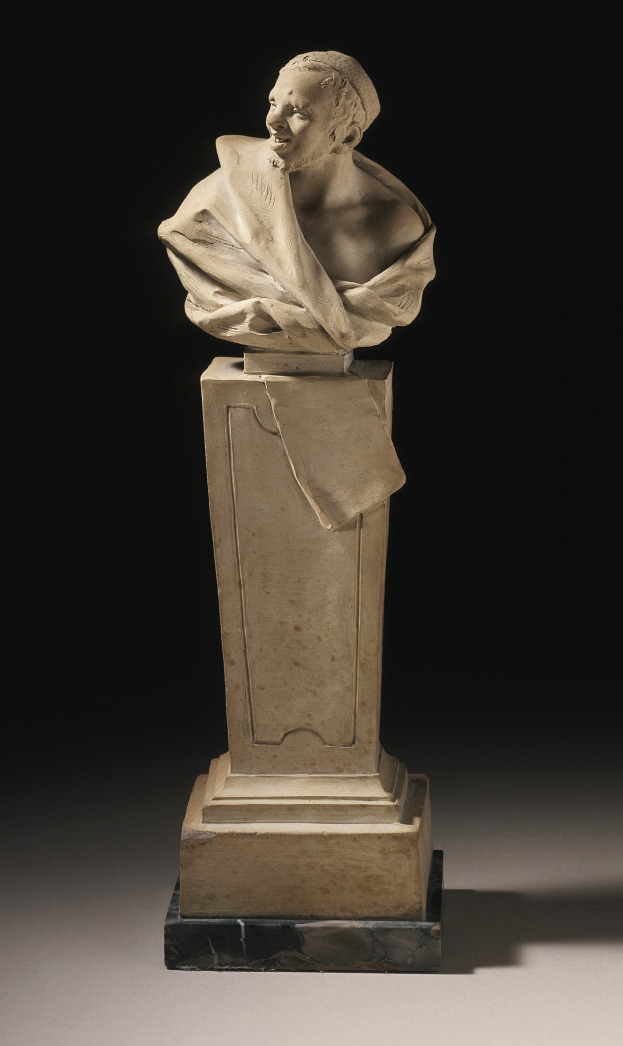 Germany, circa 1750-1757 Sculpture Terra-cotta on gray marble base Height: 13 1/8 in. (33.34 cm) including base (5/8 in.) Purchased with funds provided by Chandis Securities Company (M.79.95) European Sculpture